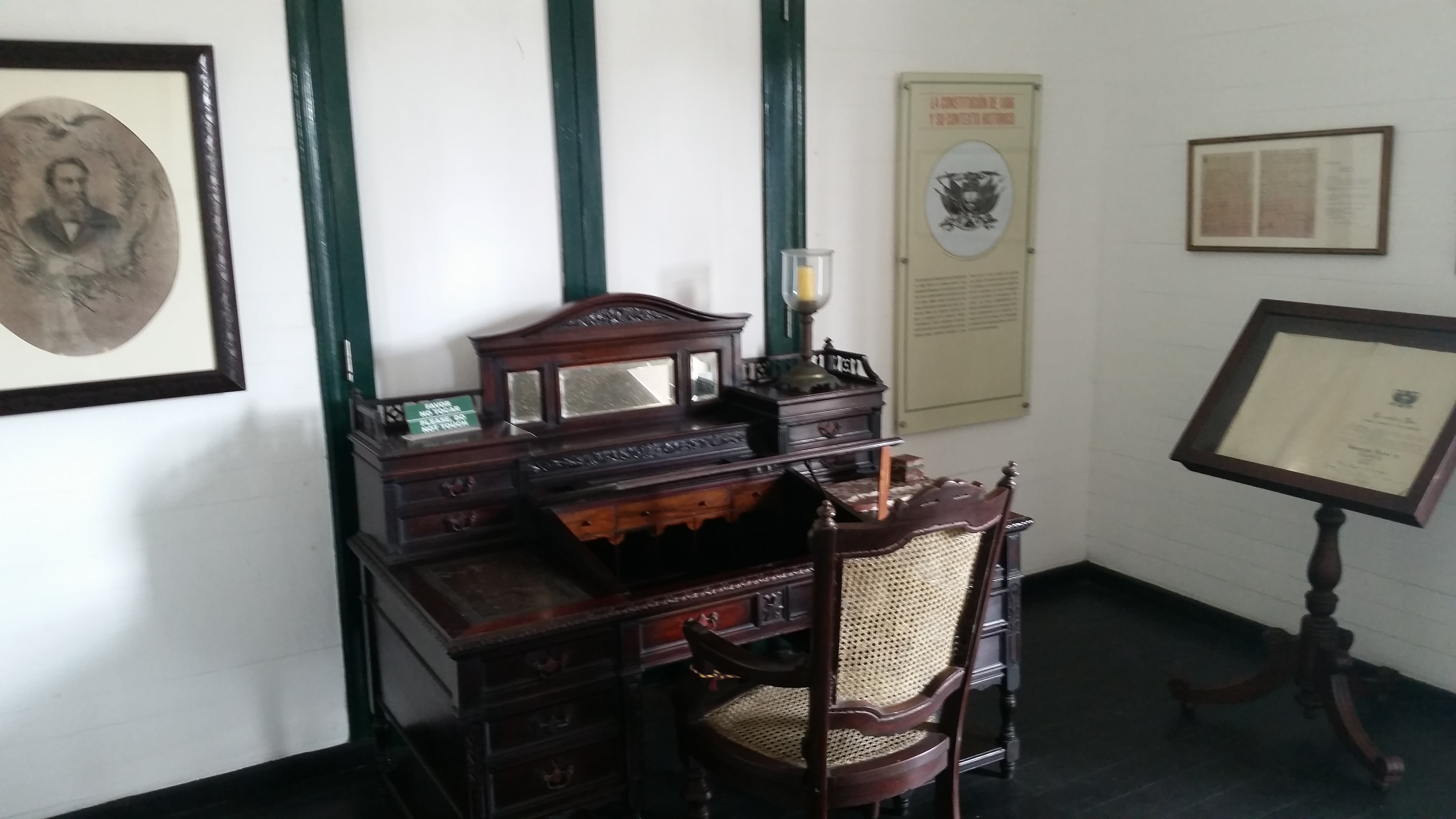 Rafael Nunez study